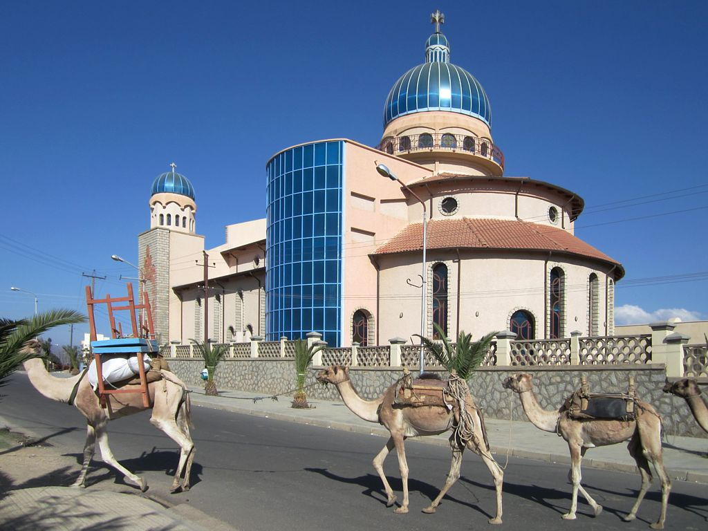 A camel train passes the new Church of San Antonio in the center of Keren, Eritrea.